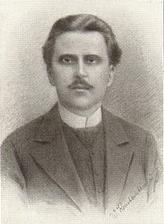 Portrait of SMAC member Sava Mihaylov from Gevgeli